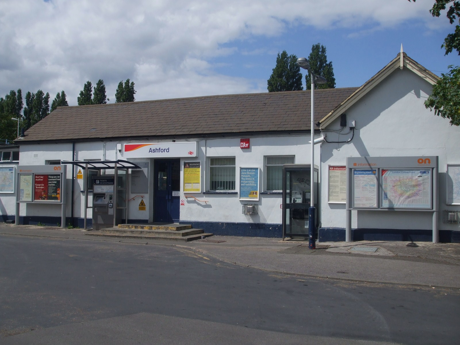 Ashford (Surrey) station building, on the down (westbound) side